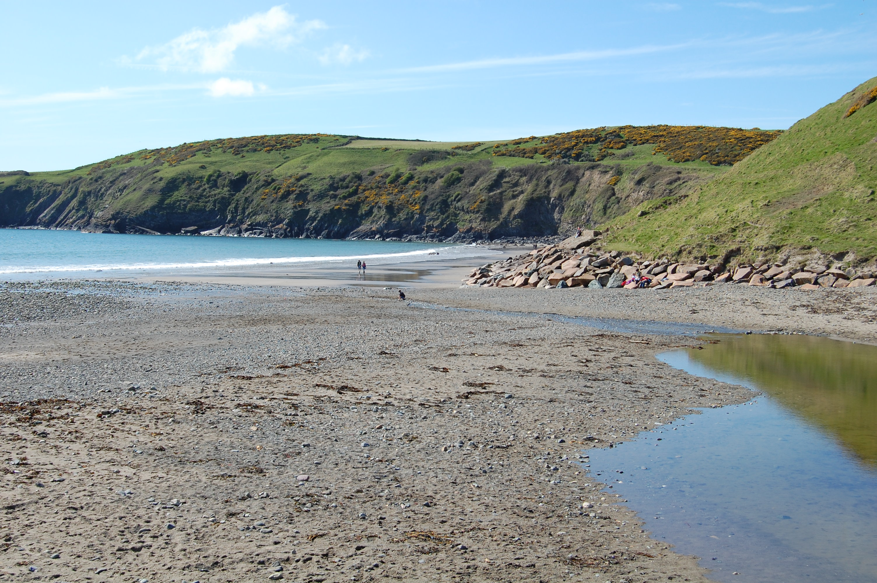 The beach at Aberdaron, Gwynedd, looking towards Porth Meudwy